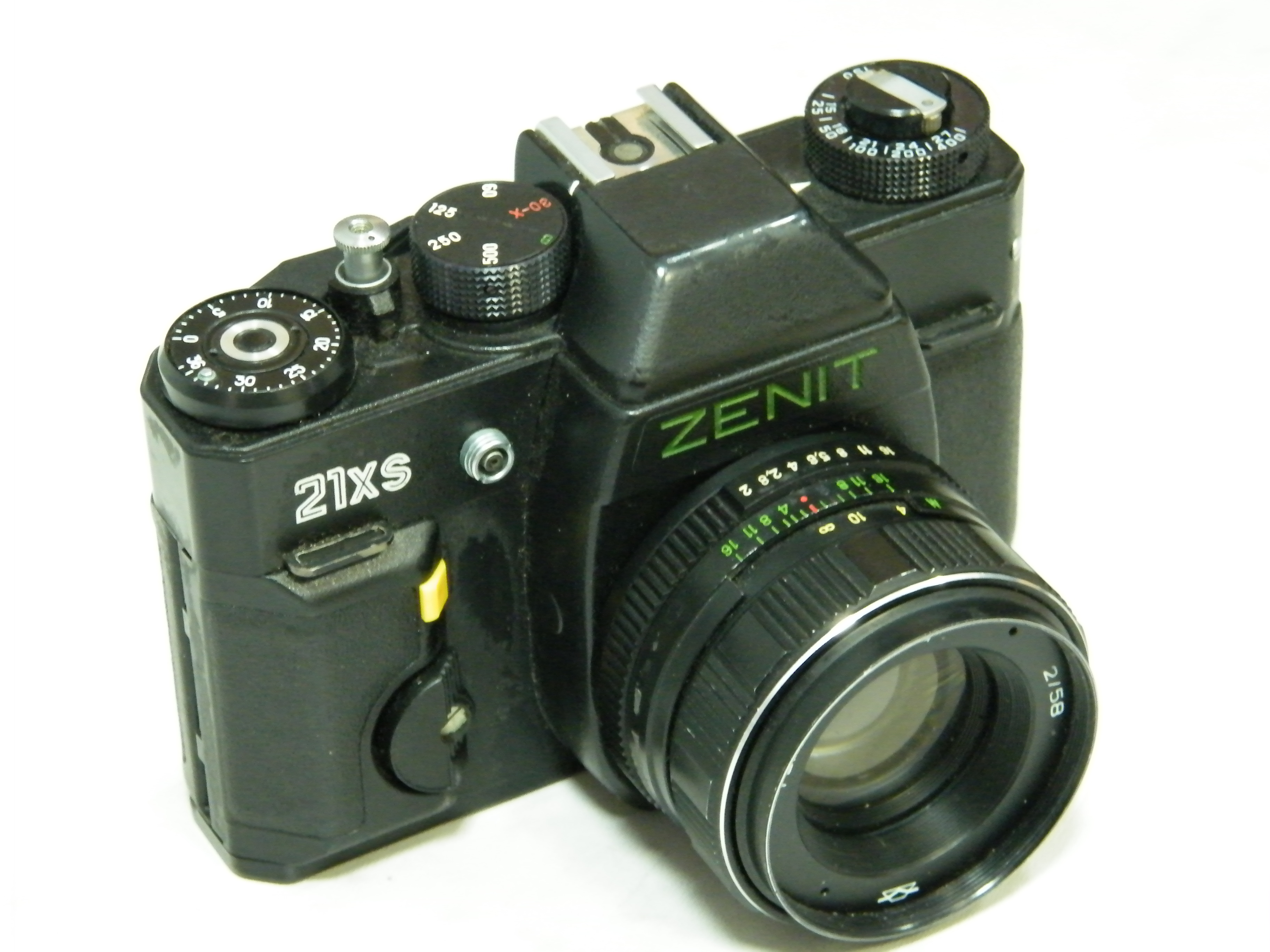 Zenit 21XS camera from Evgeniy Okolov collection